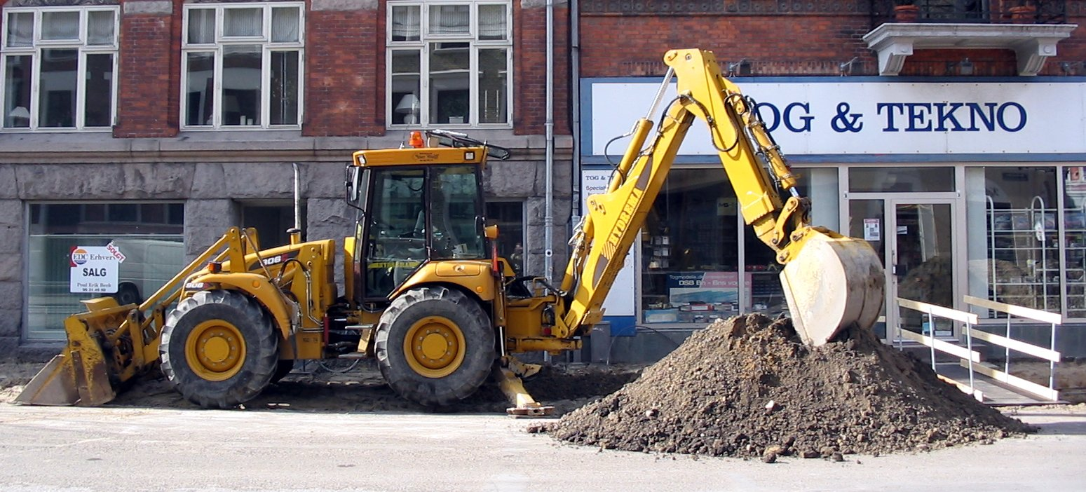 A Hydrema backhoe loader